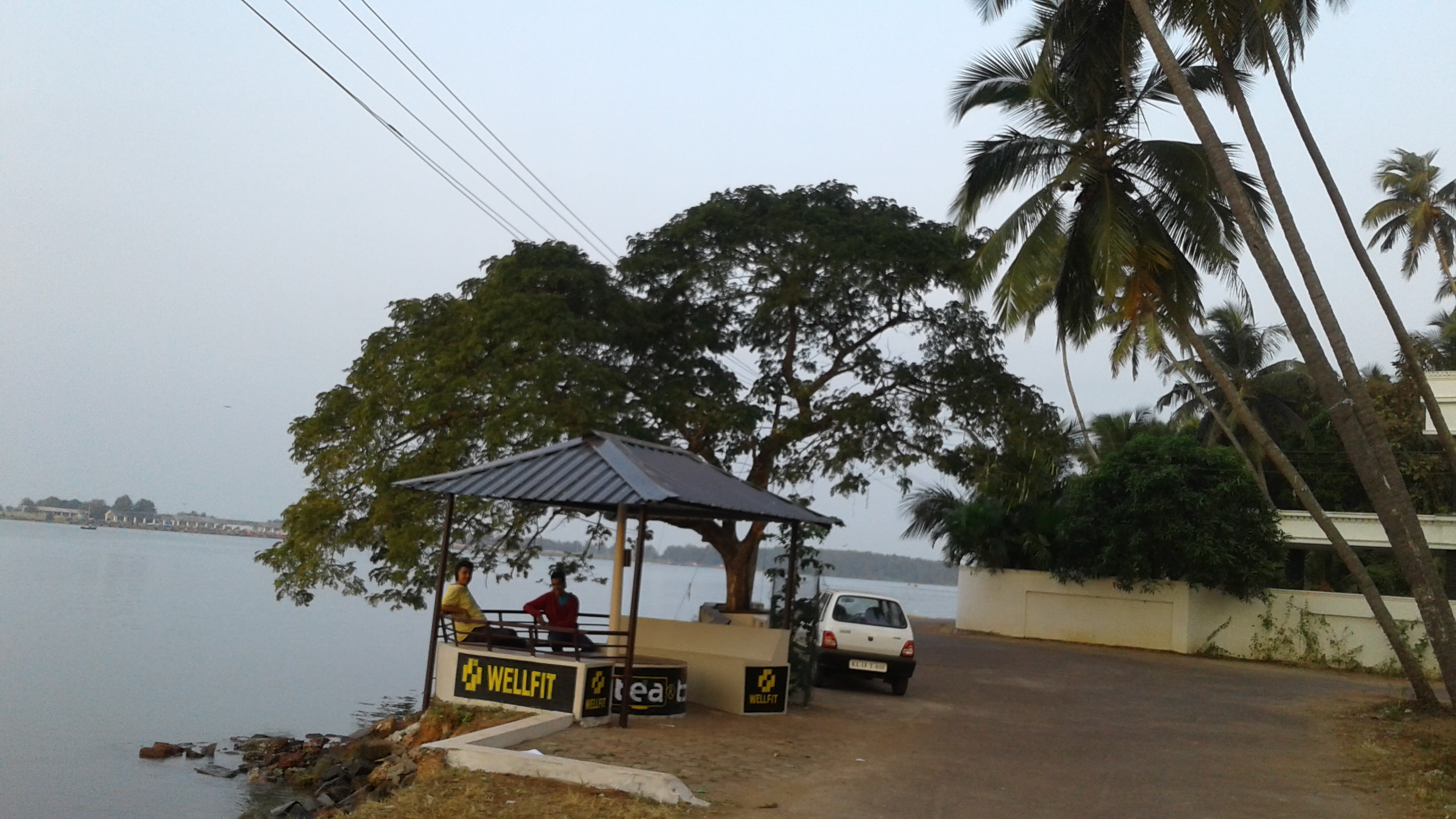 Thalangara Beach has it allː A spectacular estuary, railway bridge, fishing wharf, ancient Malik Deenar Mosque and a cute riverside walk located inside a village inhabited only by millionaires. Located two kilometers south of the railway station at Kasaragod city in Kerala state, India.